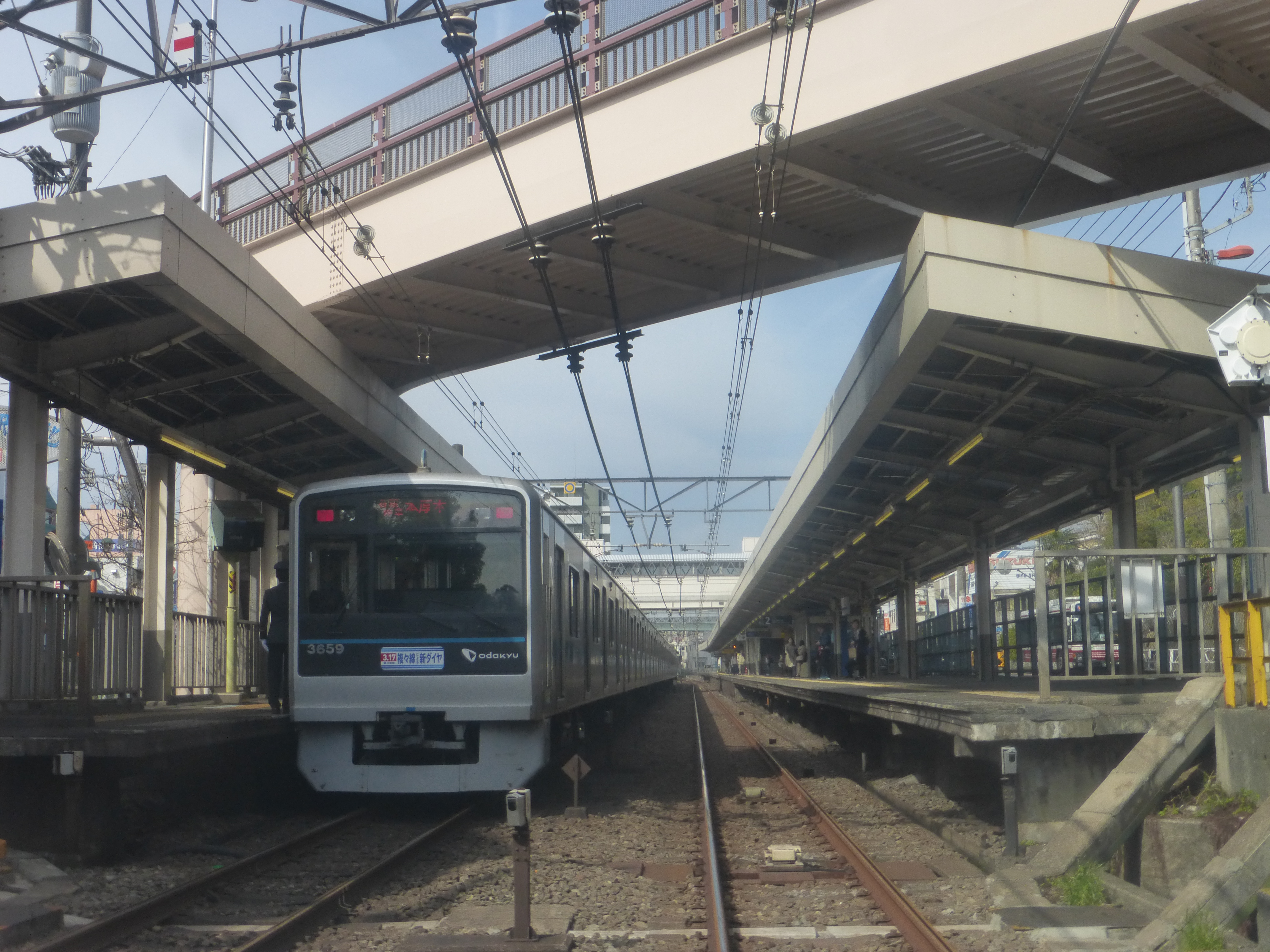 Yomiuriland-mae Station (読売ランド前駅) Panasonic Lumix DMC-TZ35